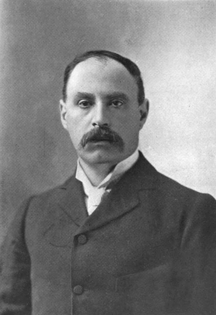 Sidney Lee